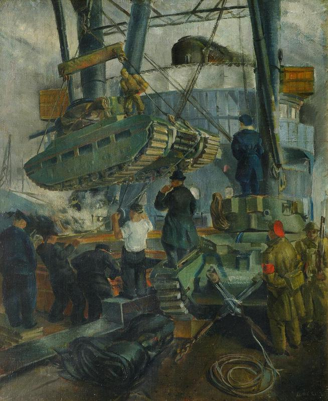 Loading Tanks for Russia image: A Matilda tank is being lowered by a crane onto the deck of a merchant ship. Six merchant seamen stand on the deck watching the tank being lowered whilst a soldier stands on the tank. On the deck on the right is another Matilda tank that has already been lowered, with a British Army officer in a red cap and a British soldier standing to the right.